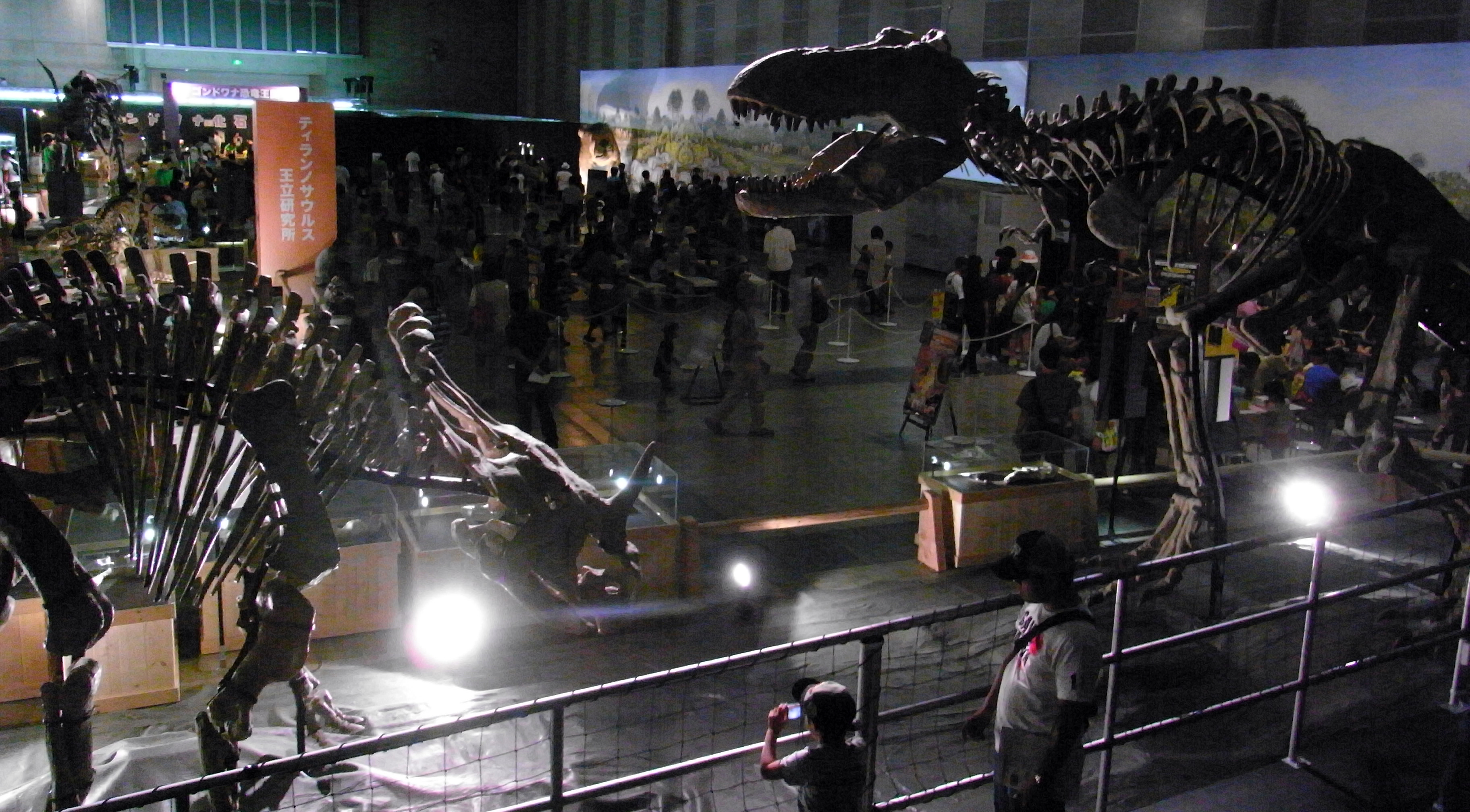 ズケンディランヌスとシノトケラトプスの睨みあい！